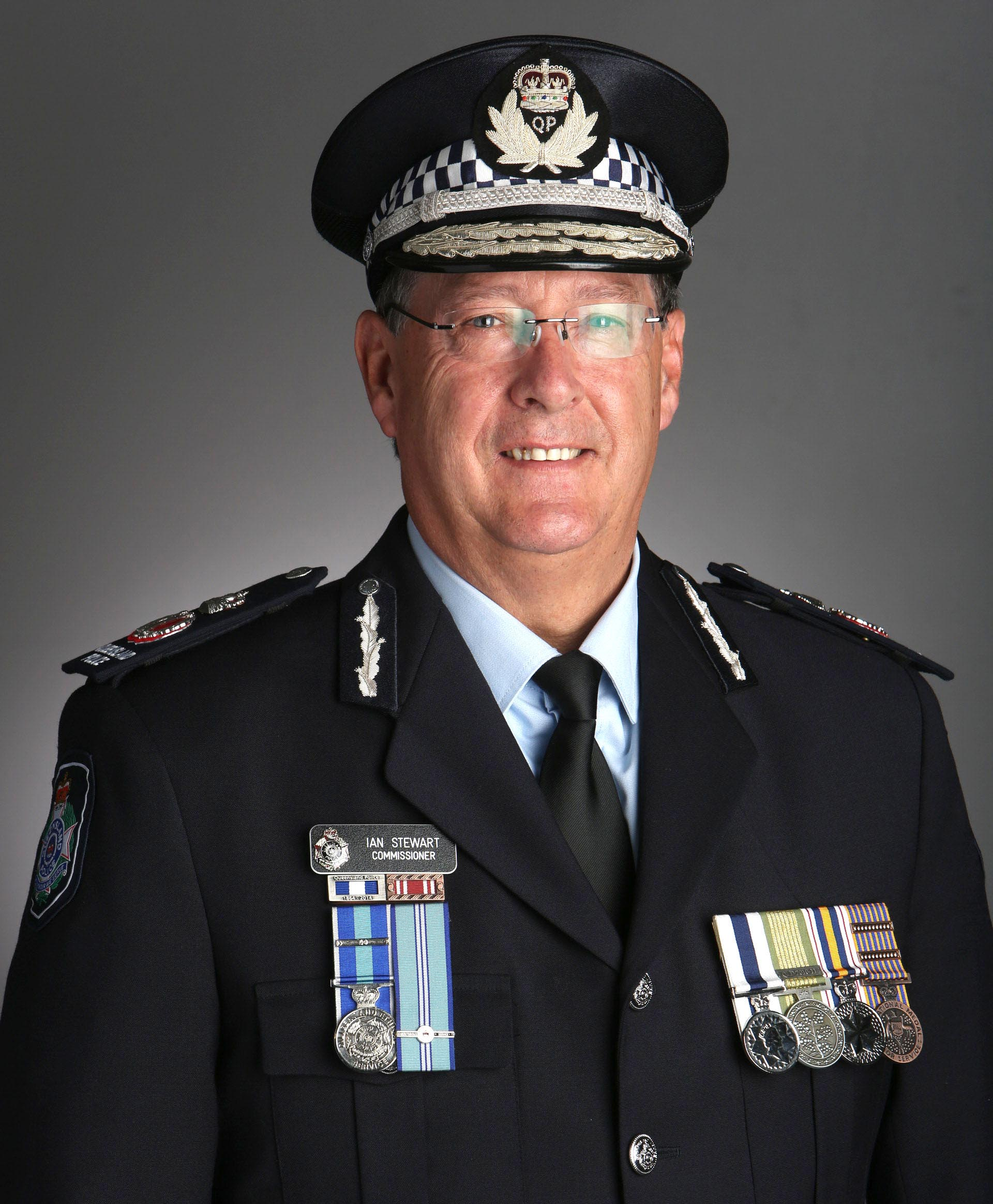 Queensland Police Commissioner, Ian Stewart, 2017